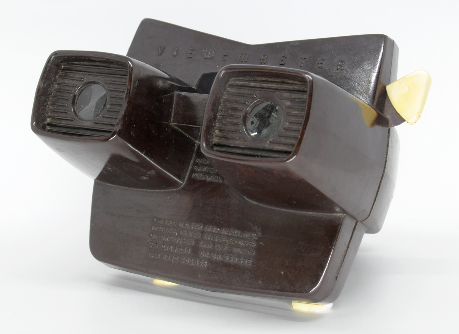 View-Master Model E